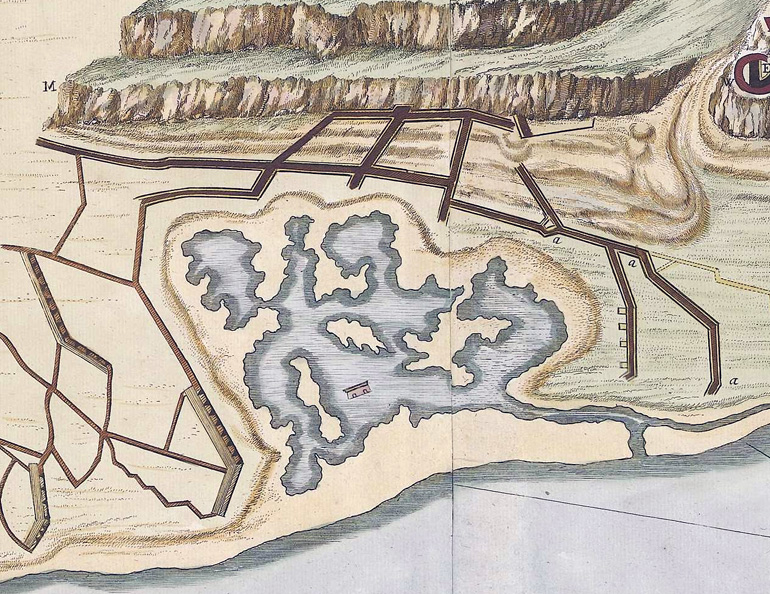 The Morass and Spanish trenches, extracted from An exact Plan of the town, castle, moles and bay of Gibraltar